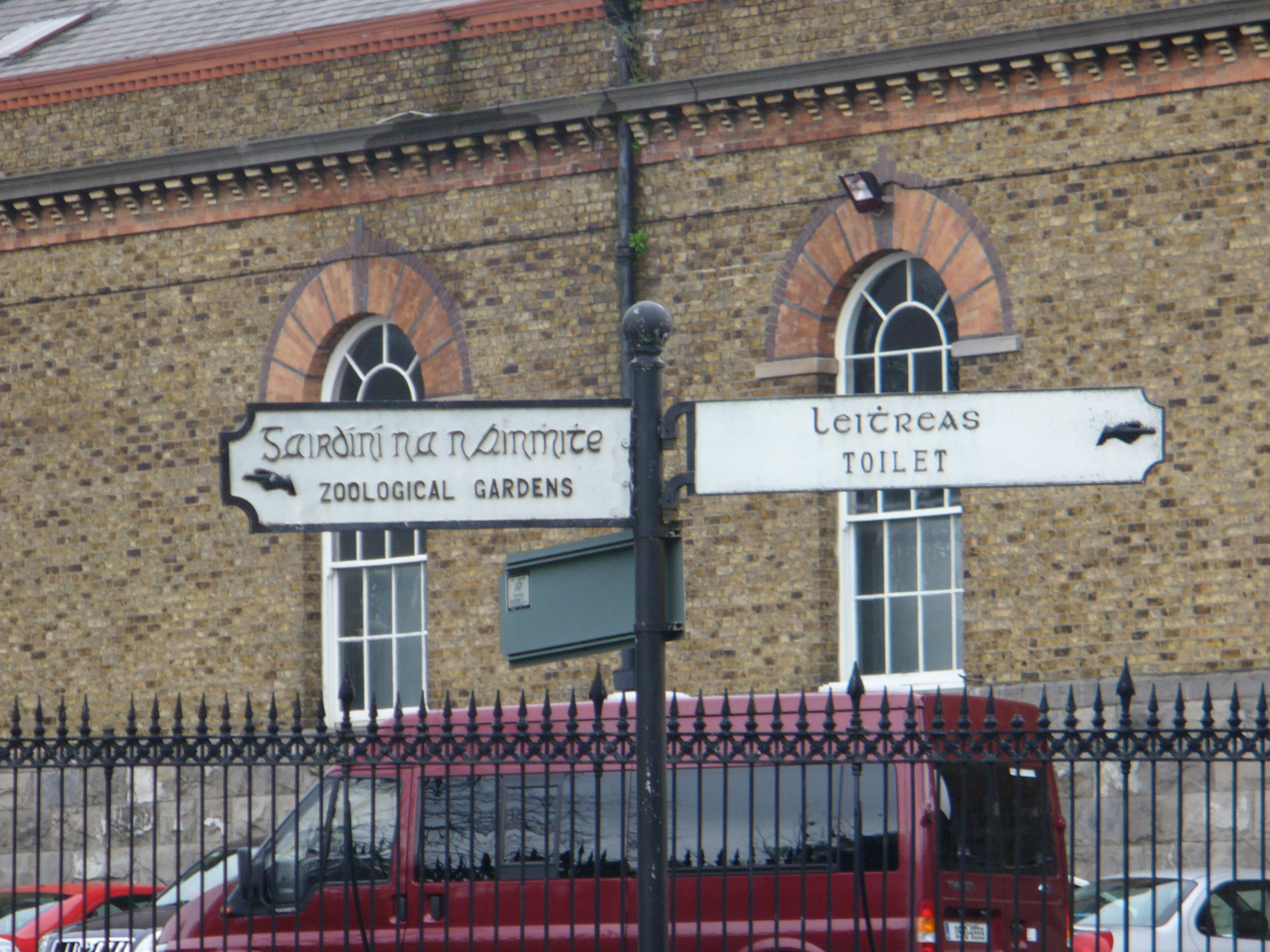 Signs in Irish and English pointing to zoo and toiletSomehow, I don't think "leithreas" comes from an ancient Gaelic root (note: I'm wrong; see comments below)